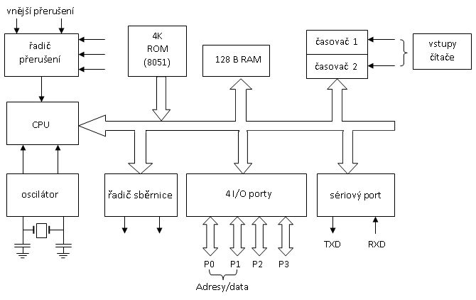 Core Intel 8031